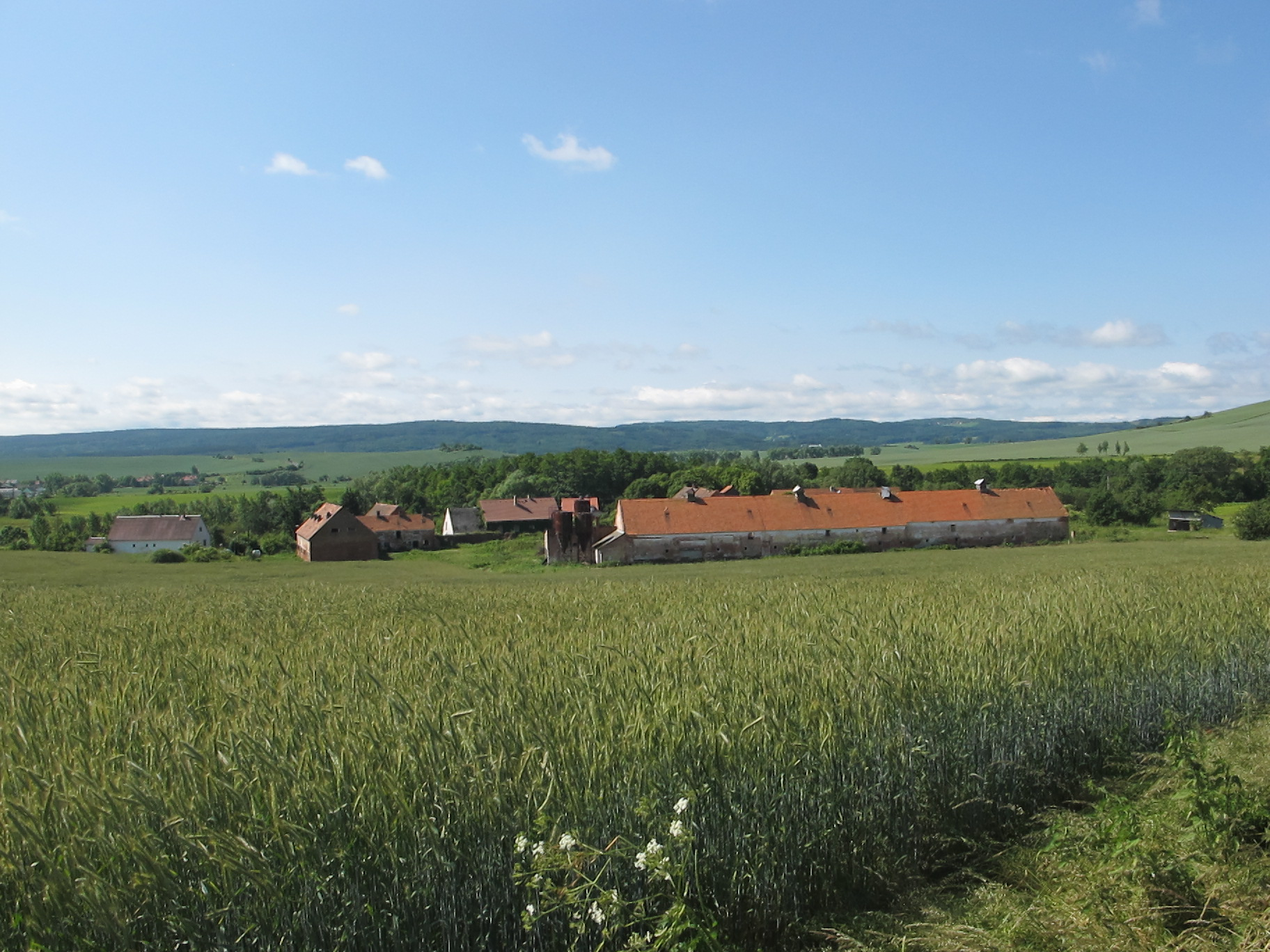 Vesce - total view